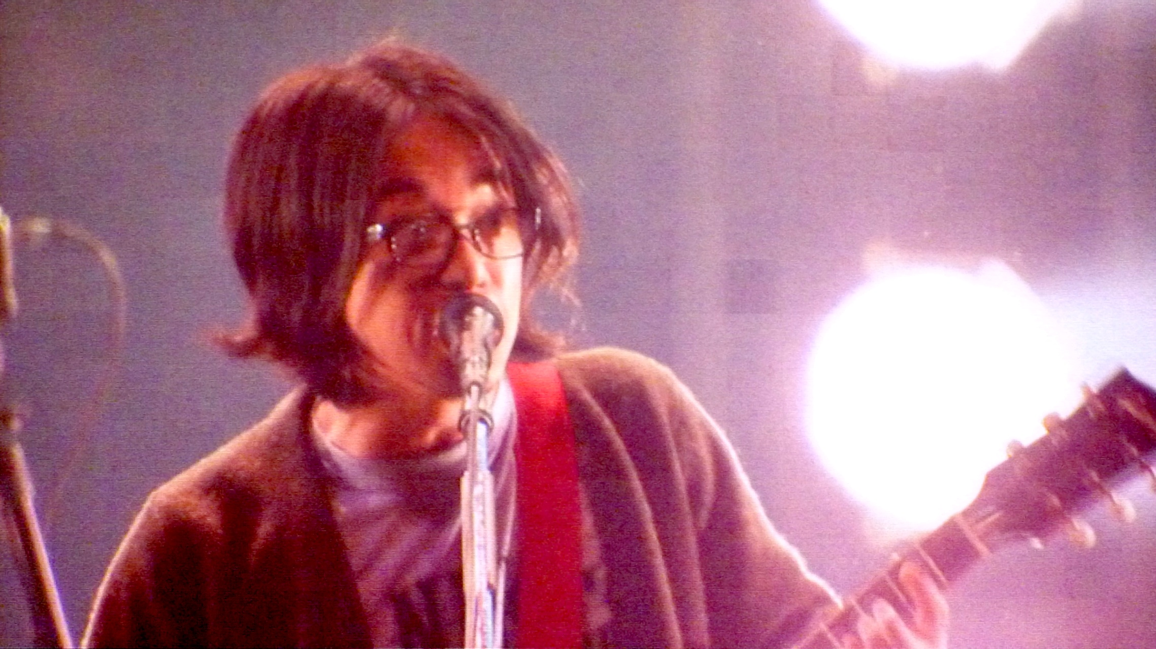 Masafumi Gotō (後藤正文) playing live at Countdown Japan festival.